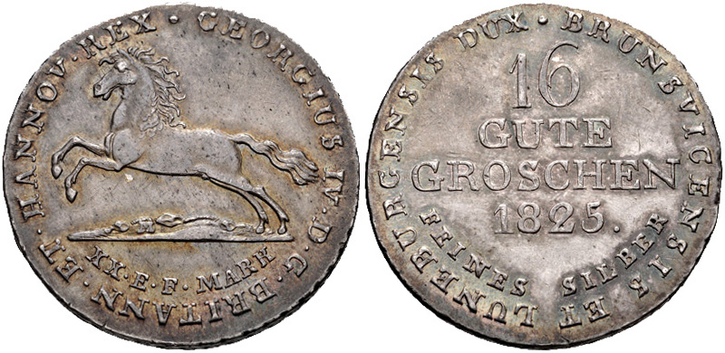 Germany, Kingdom of Hanover. George IV. 1820-1830. Ag 16 Gute Groschen 1825 fine silver (30mm, 11.78 g, 12h). Horse springing left / Denomination and date in five lines. Welter 3016; KM 138. EF, attractively toned.